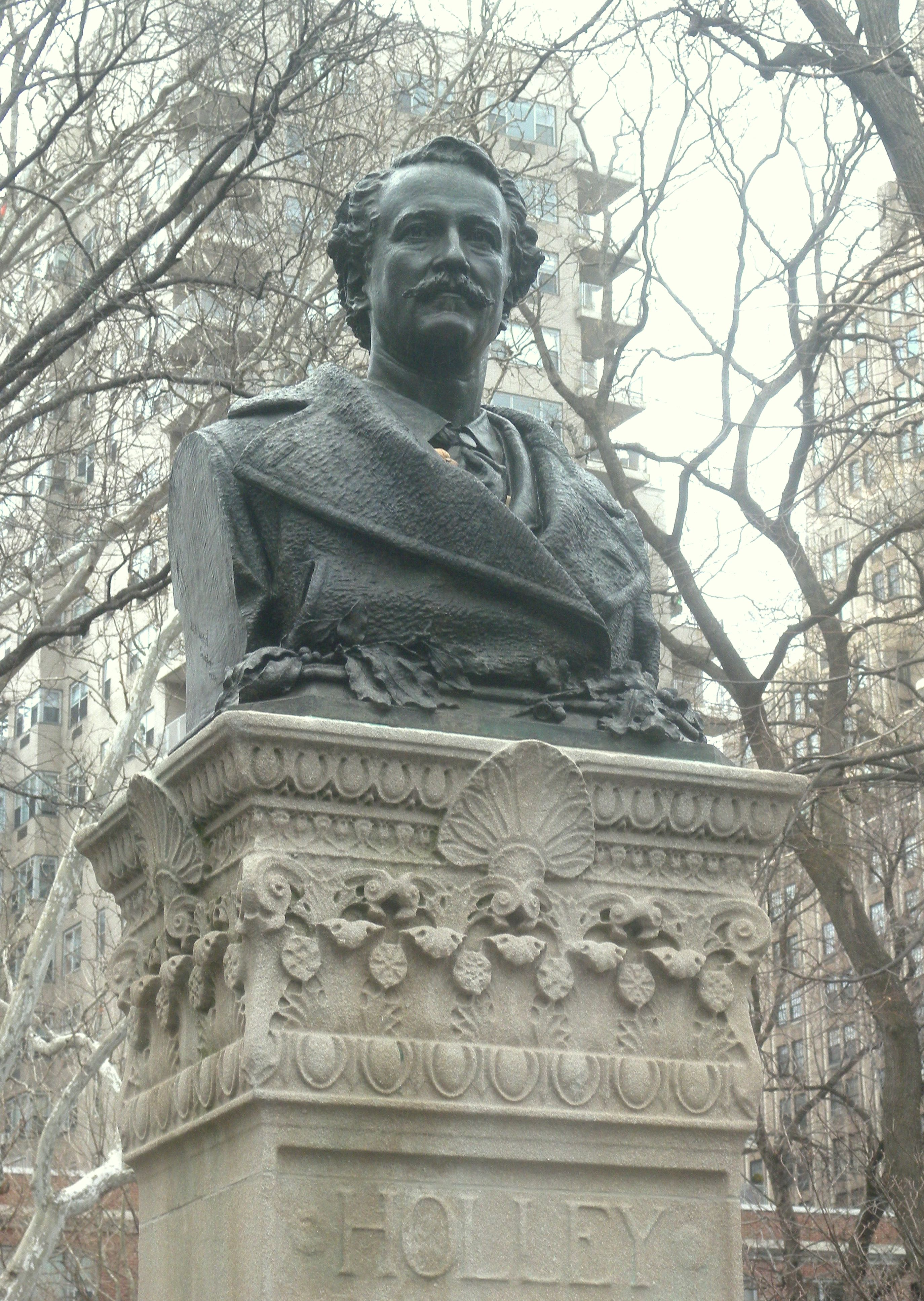 Looking northeast at Holley bust on a cloudy morning.